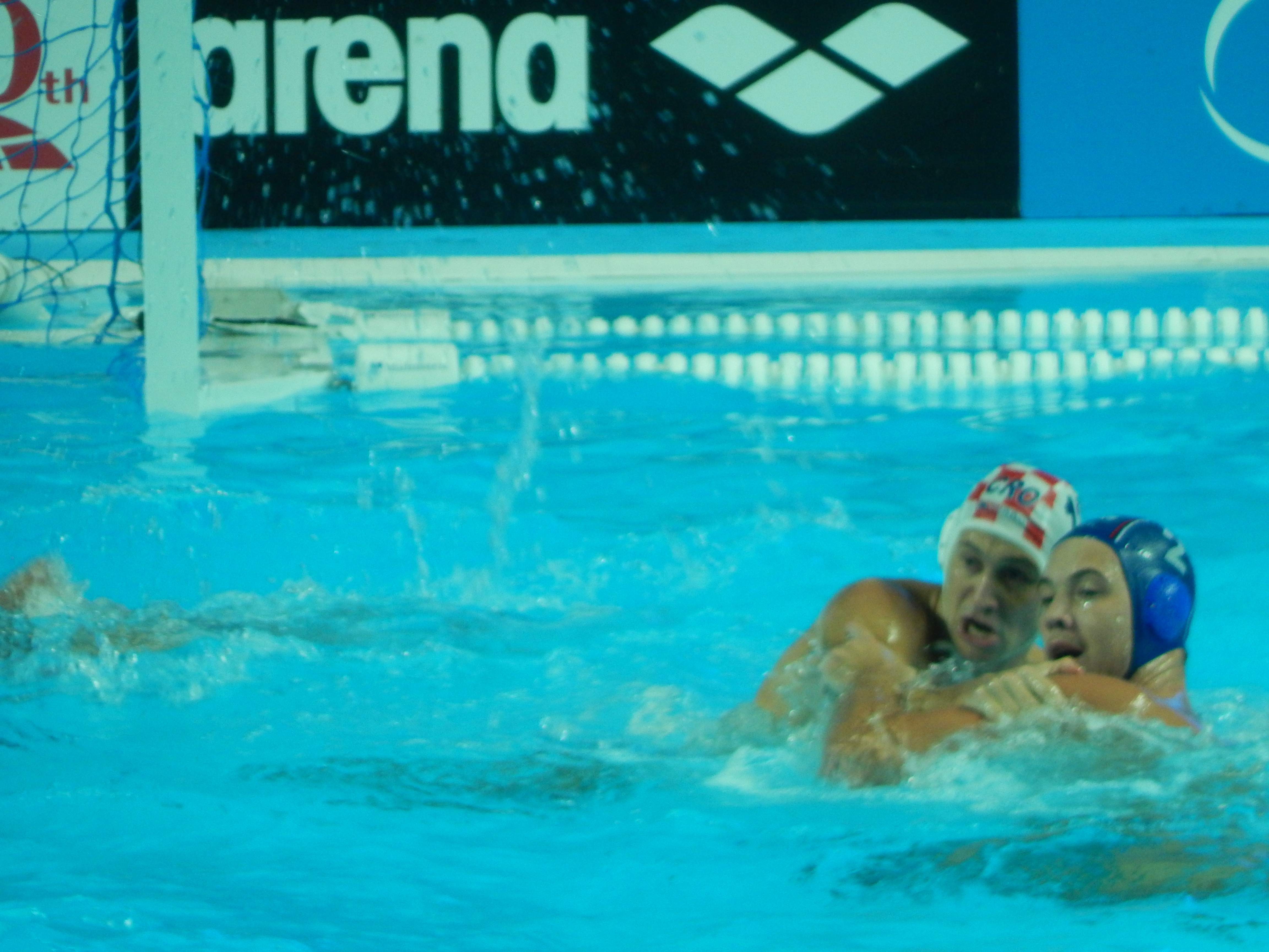 The gold medal match between Team Serbia and Team Croatia and the victory ceremony. All photos have been taken from the photographers sector. I was simply usual visitor but my ticket was to non-existent seats, therefore I was moved to that sector. All good photos I upload to WikiCommons for free use.